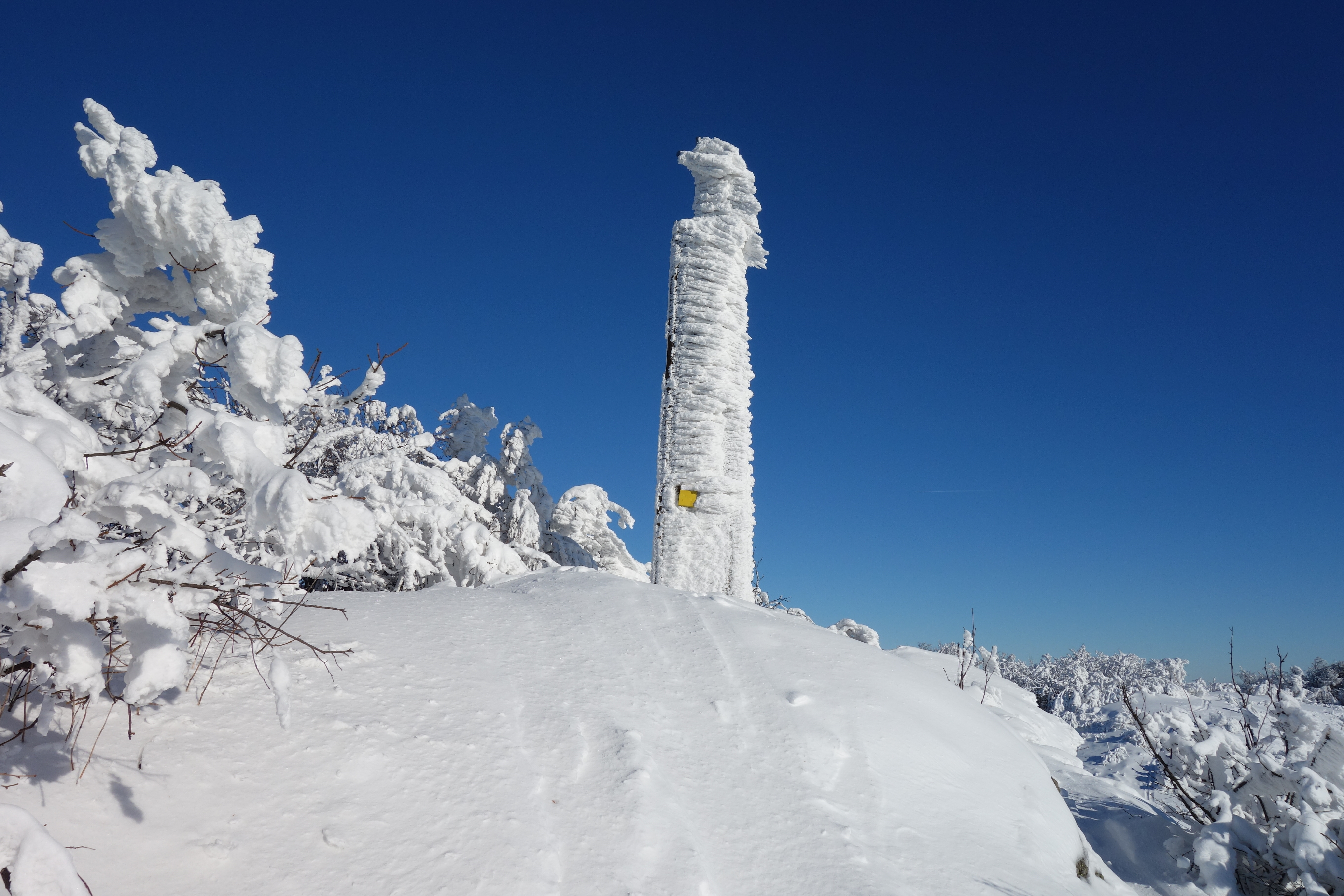 The Vihorlat peak in the winter This is a photography of Natura 2000 protected area with ID SKUEV0025